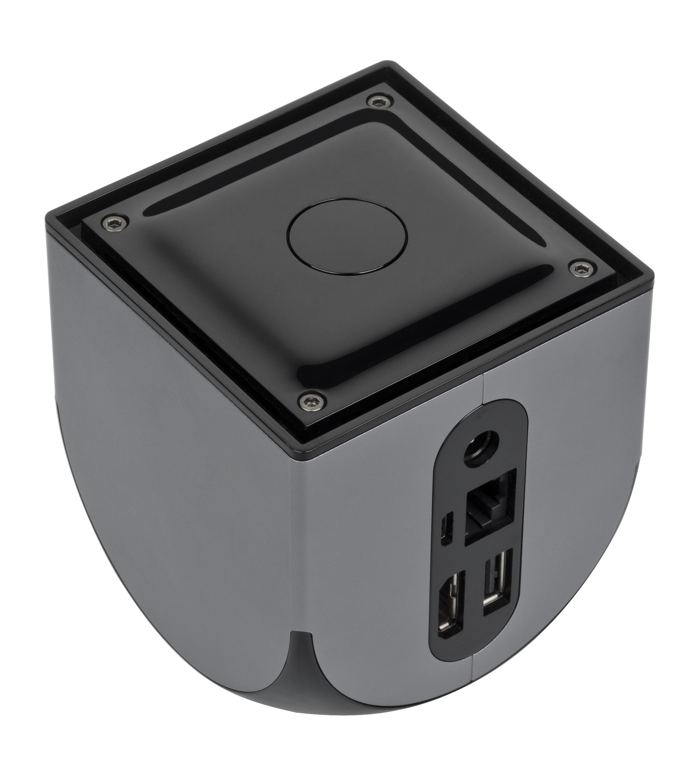 The Ouya, a gaming microconsole that runs a modified version of the Android operating system. Released in 2013, the Ouya started out as a Kickstarter project that raised over 8 million dollars. Though based off of phone hardware and an Android operating system, games for the system must be specifically ported to the Ouya and sold through its digital distribution service. This picture shows the back of the console. Visible is the DC power port, a micro USB port, a LAN port, an HDMI port and a standard USB port.